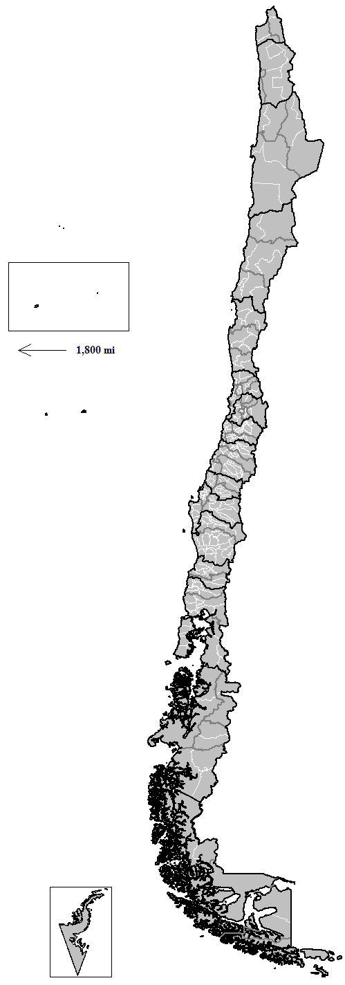 Map of the municipalities of Chile. Created by Rarelibra 13:07, 11 April 2007 (UTC) for public domain use, using MapInfo Professional v8.5 and various mapping resources.